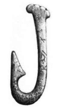 Originally uploaded to sv: at October 23, 2003, by Användare:Den fjättrande ankan, with the following description: Metkrok av ben från stenåldern, funnen i Skåne. Källa:Nordisk familjebok (1917), band 26, artikeln 'Stenåldern' [1] alternativt [2]